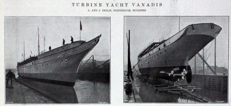 The turbine yacht TS Vanadis was designed by Clinton Crane of Tams, Lemoine & Crane in New York, built by A. & J. Inglis in Glasgow and launched in 1908.